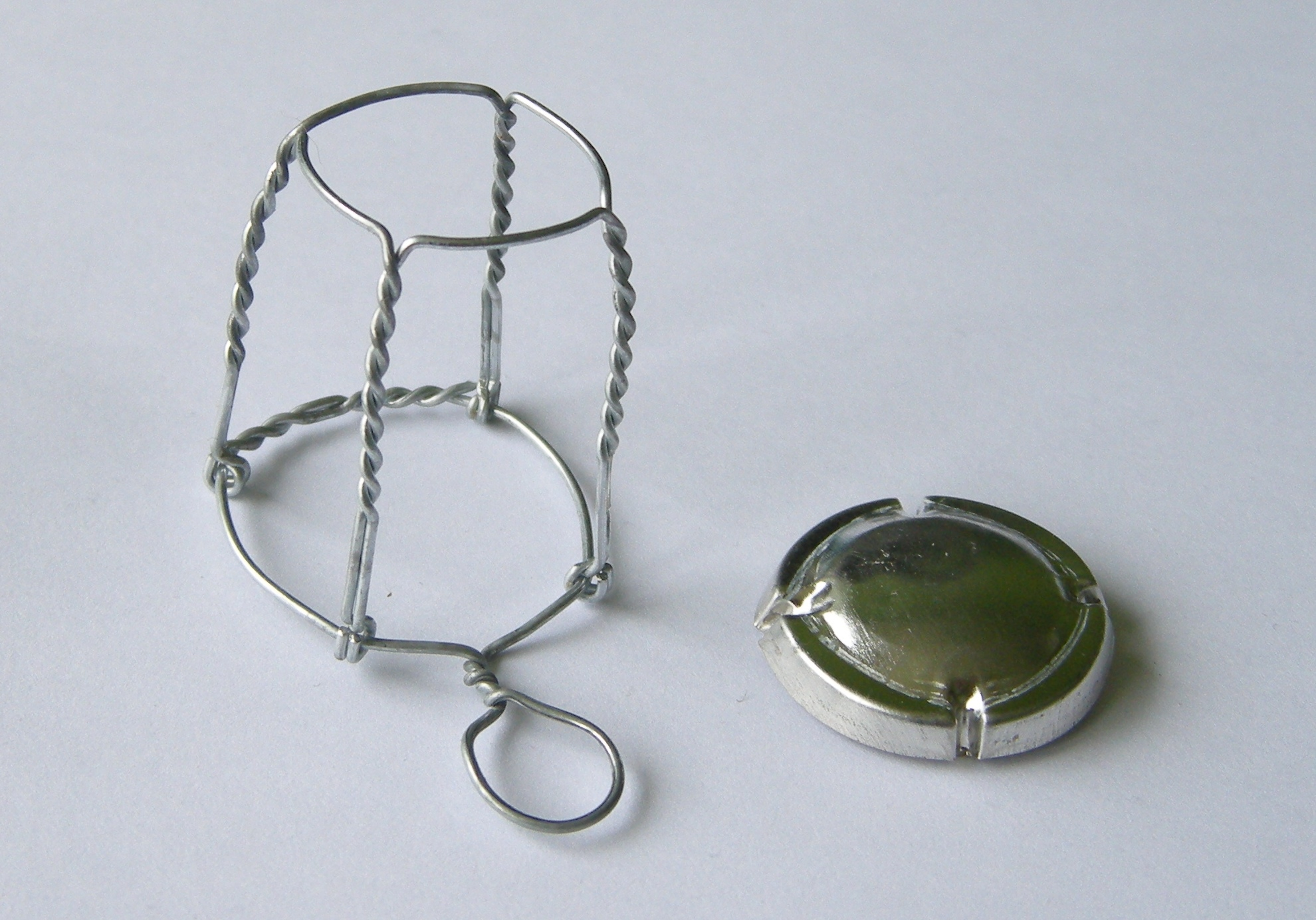 a cork wire hood for wine, muselet, Champagne, Cidre